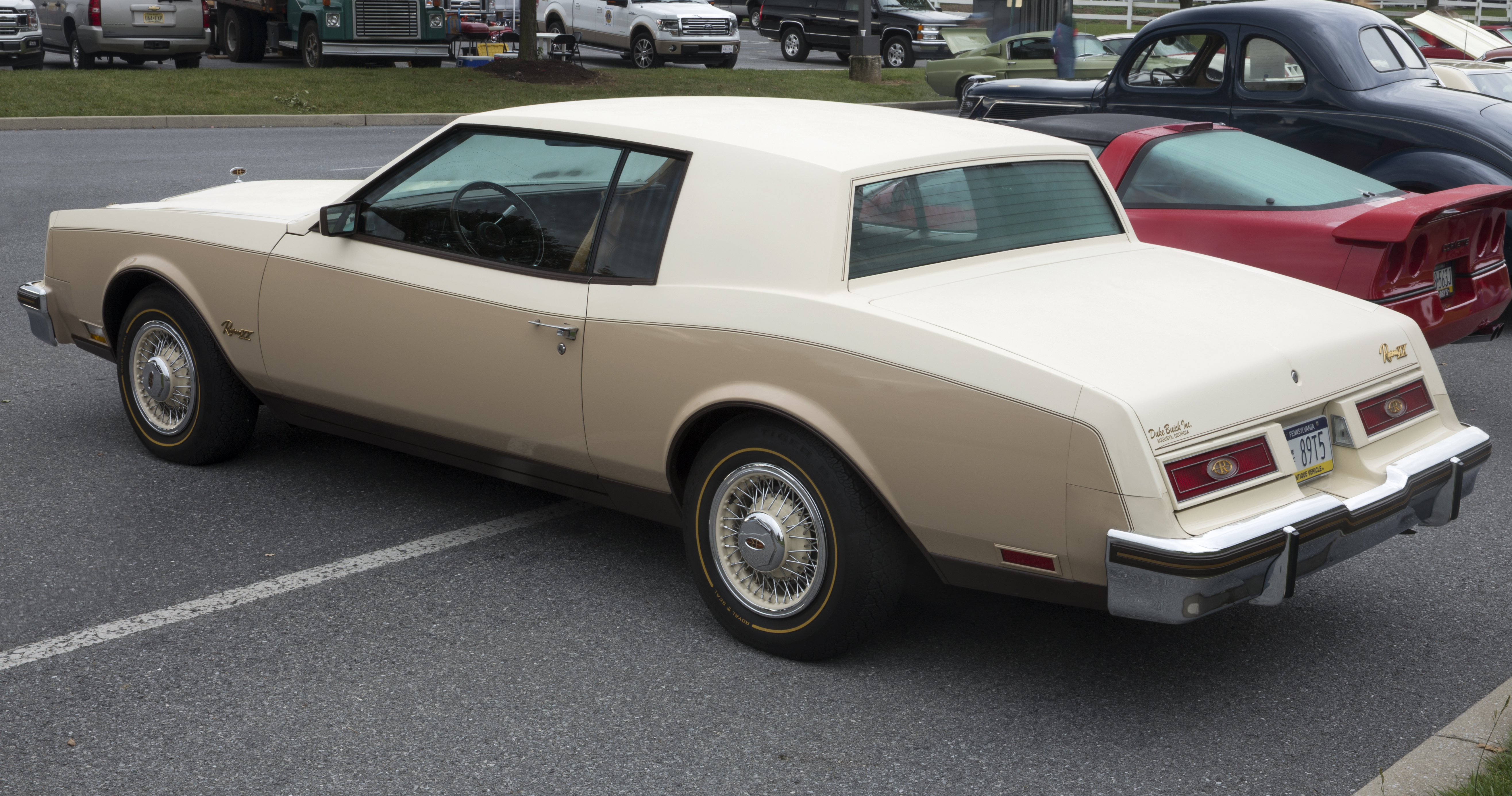 A 1983 Buick Riviera XX offered for sale at Hershey 2019. 502 of these were made.